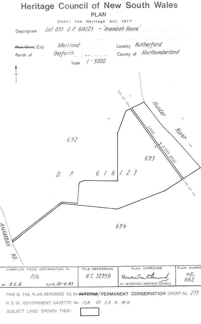 Anambah House: PCO Plan Number 275